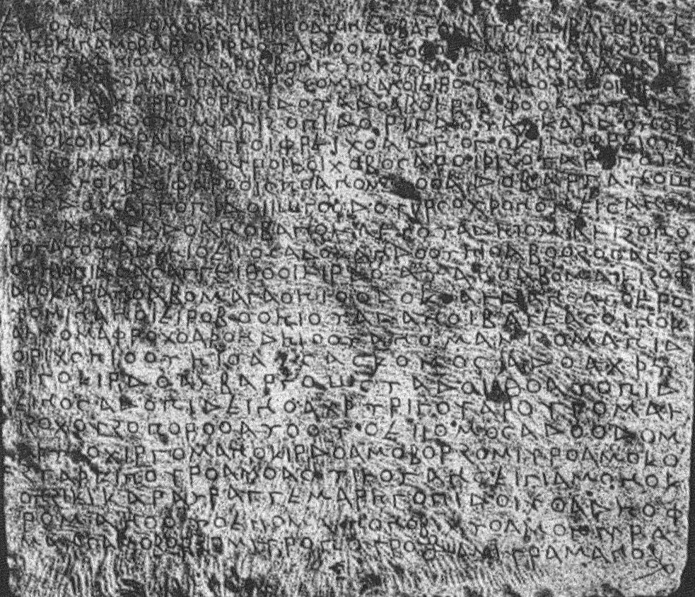 Rabatak inscription (however, this is disputed; see the talk page)